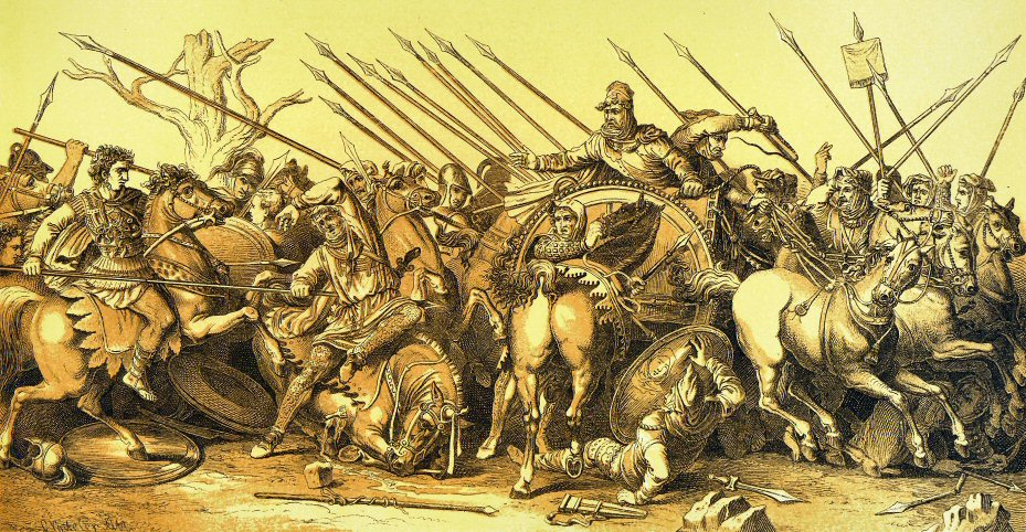 Alexander mosaic, old reconstruction drawing